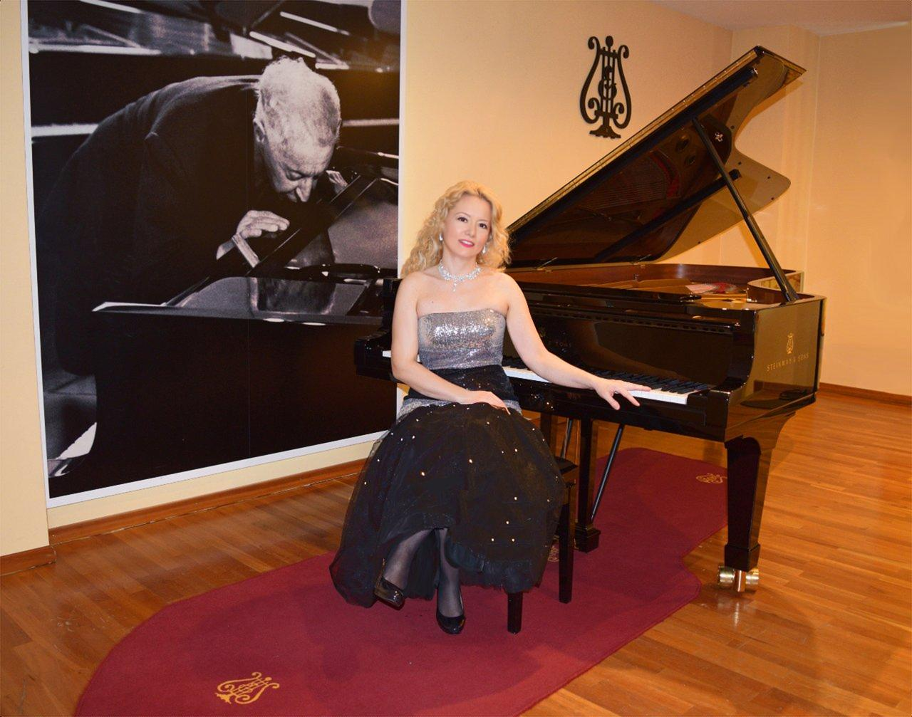 Ivajla Kirova, Steinway Artist